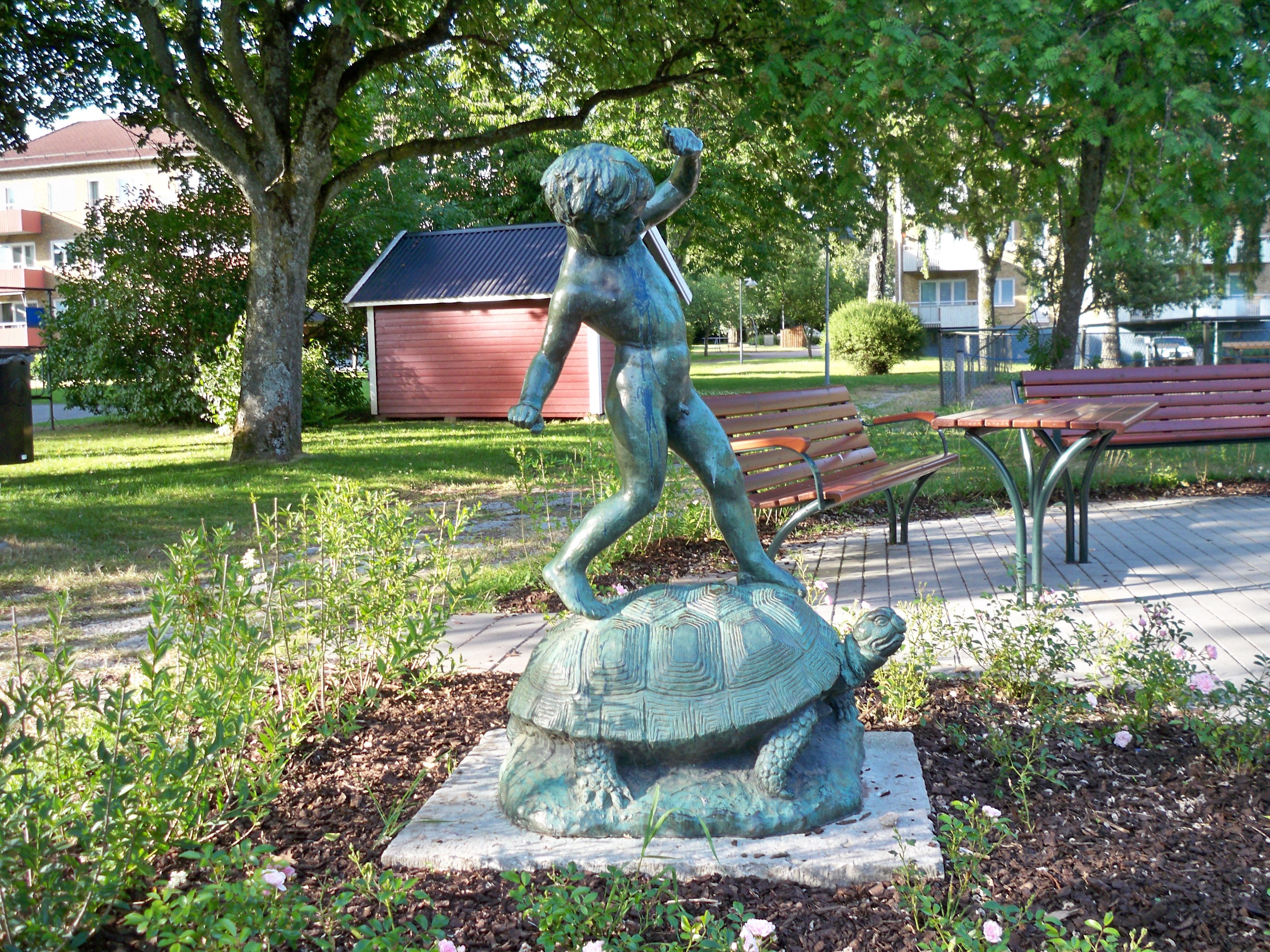 The sculpture Boy and Turtle (1945) made by the Swedish sculptor Bror Chronander (1880-1964) and placed in the Göta district of Borås, Sweden.